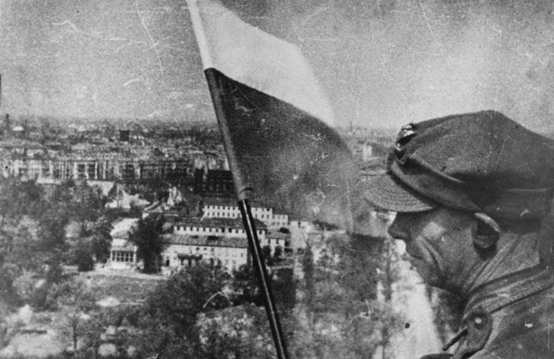 Polish flag in Berlin 02.05.1945 over the Berlin Victory Column (Siegessäule) when Red Army and Polish Army after fierce fights against Nazis together conquered Berlin that was the seat of criminal Nazi regime in Germany. Visible building of Schloss Bellevue.